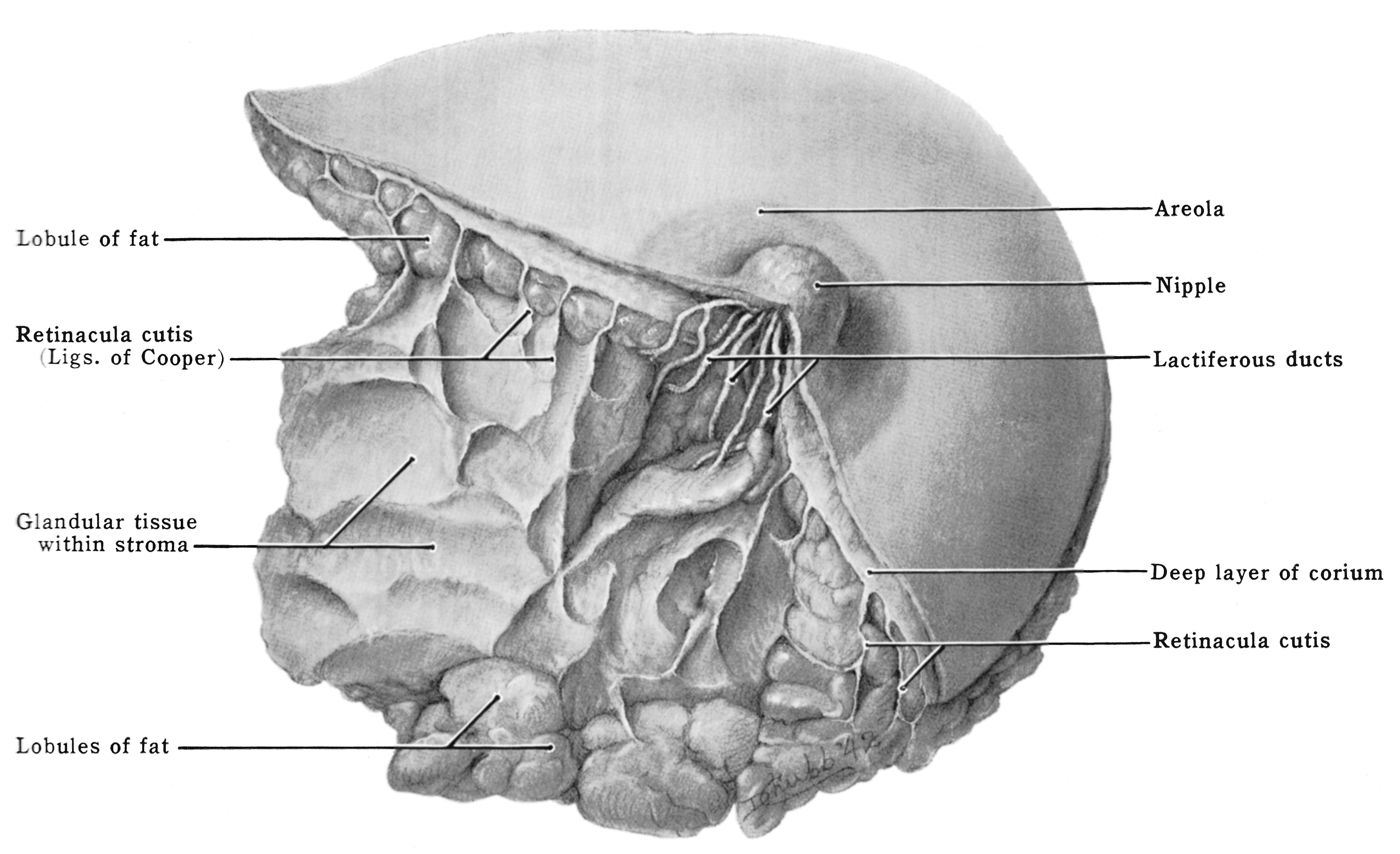 An anatomical illustration from An atlas of anatomy/by regions 1962